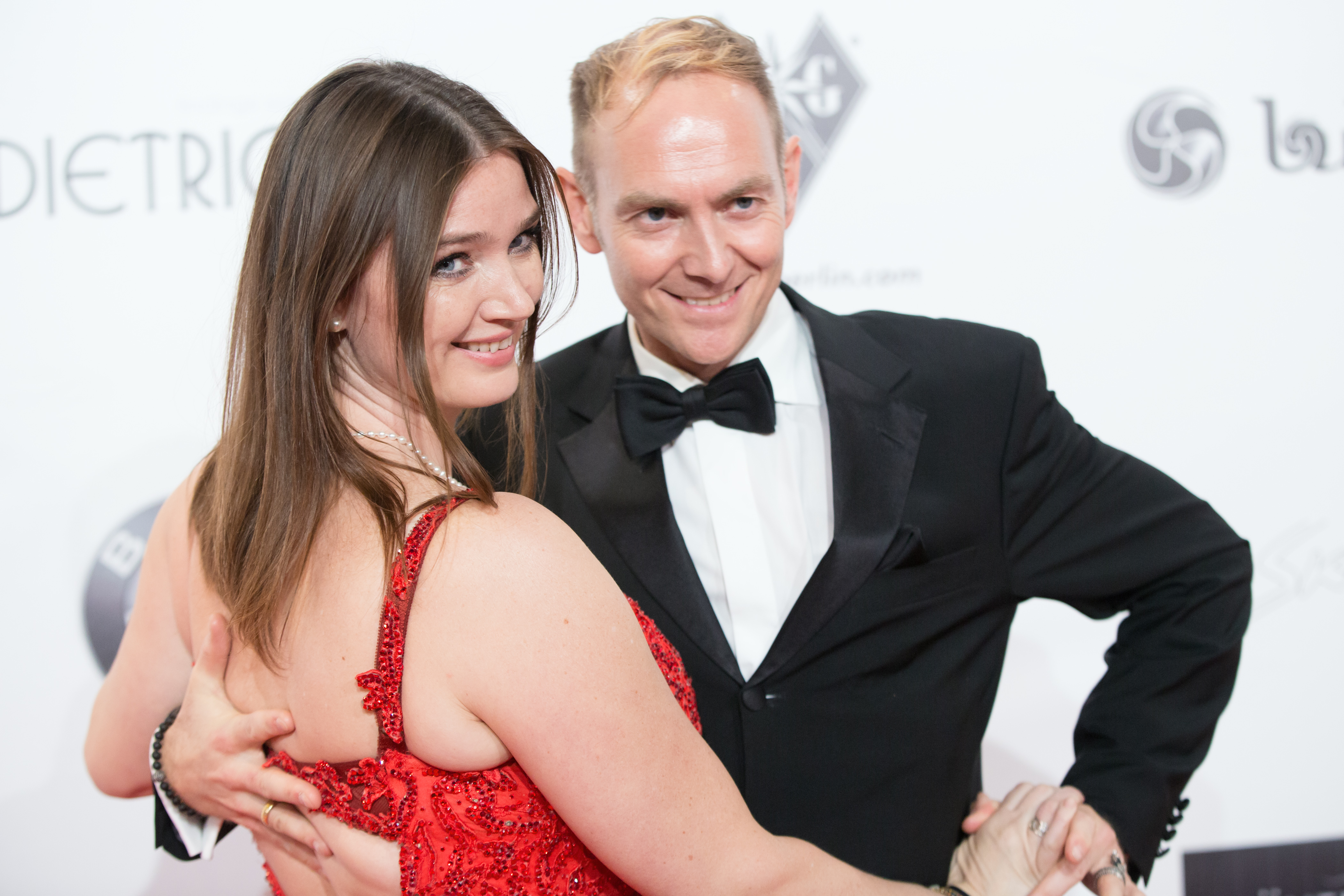 Zabine and Alexander Zaglmaier on the red carpet of the Filmball Vienna 2016 at Rathaus, Vienna, Austria.